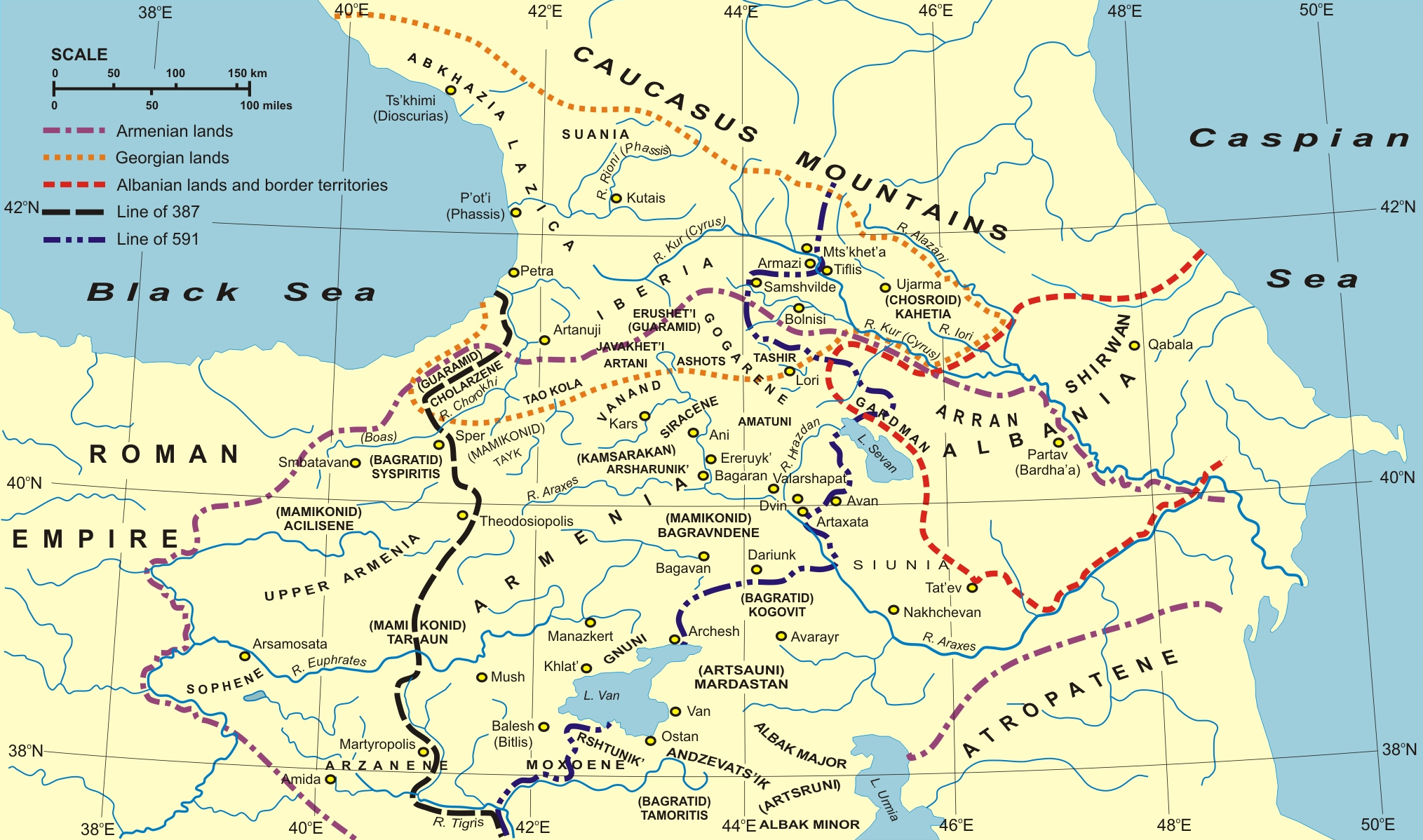 Ancient countries of Transcaucasia